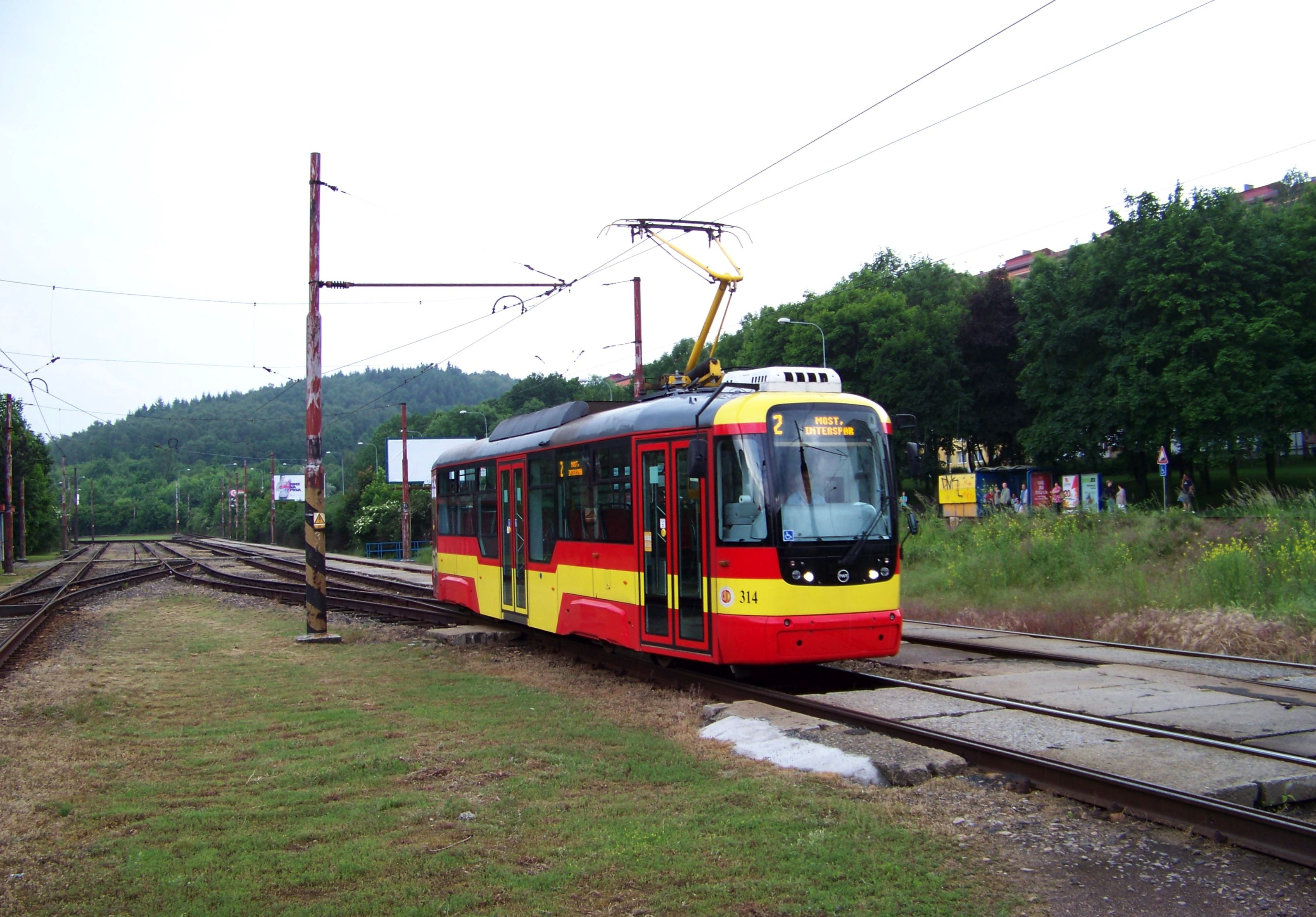 Most, Most District, Ústí nad Labem Region, Czech Republic. Rudolická street, tram stop "Most, nádraží", tram Vario LF.